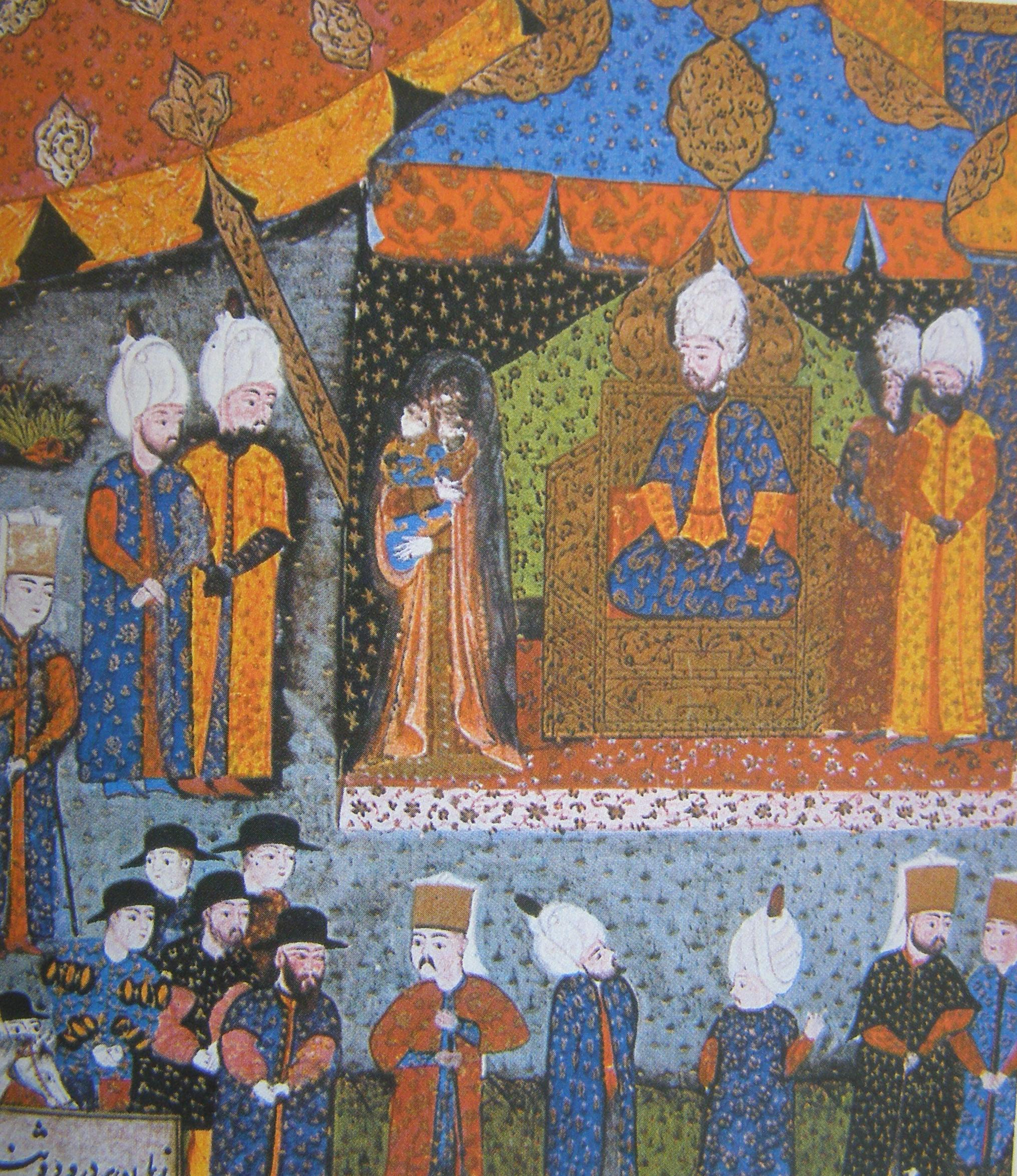 John Sigismund prince of Transylvania as child, with her mother dowager queen Isabella Jagiellon ahead of Suleyman the Great in 1541